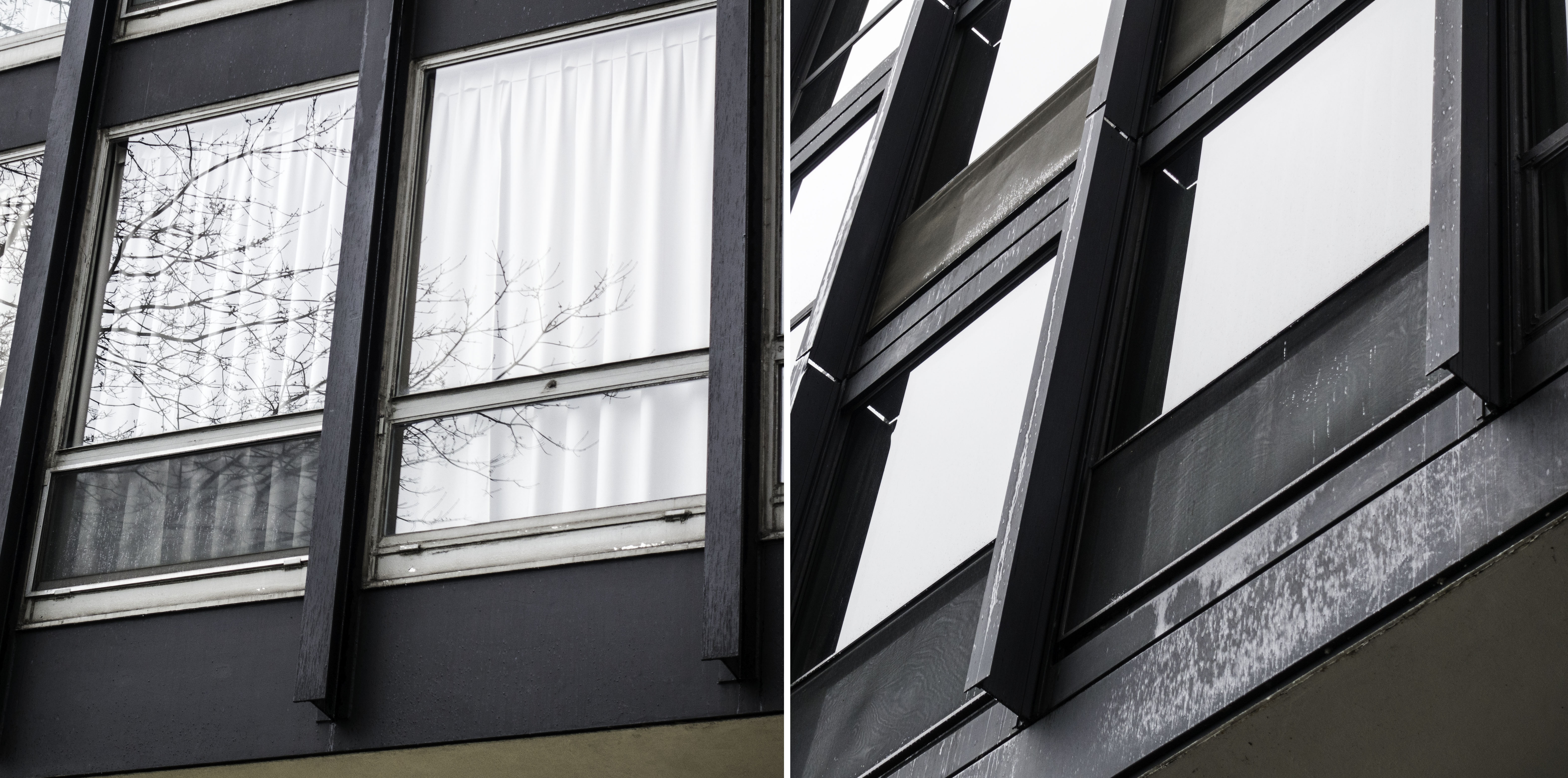 860 Lake Shore Drive (left) has windows attached to structure, not to mullions; Esplanade Apartments at 900 Lake Shore Drive (right) were first true curtain-wall high-rises.